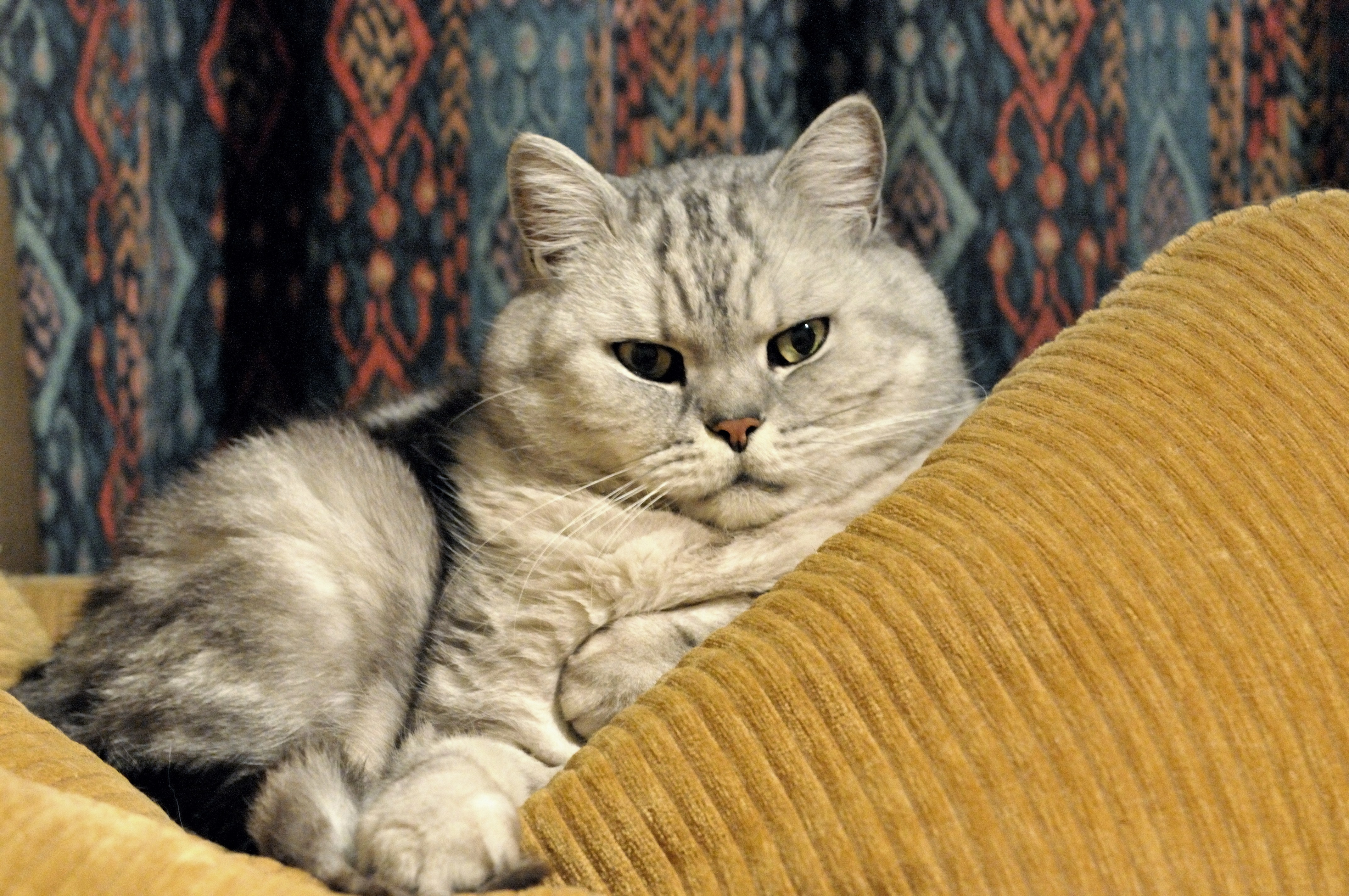 hector , british shorthaired cat silver tabby